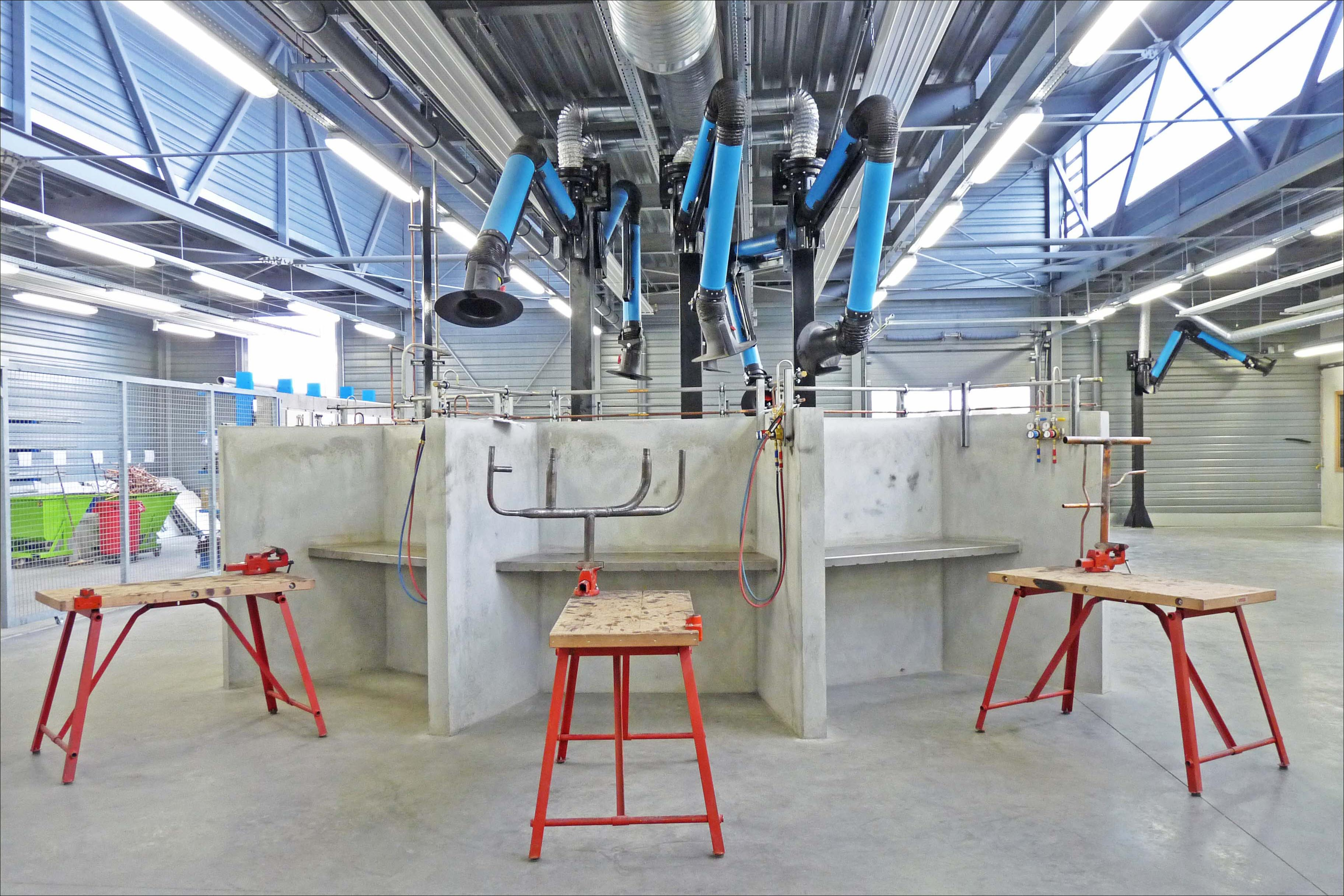 Modern workstation in a plumbing section of a technical school.